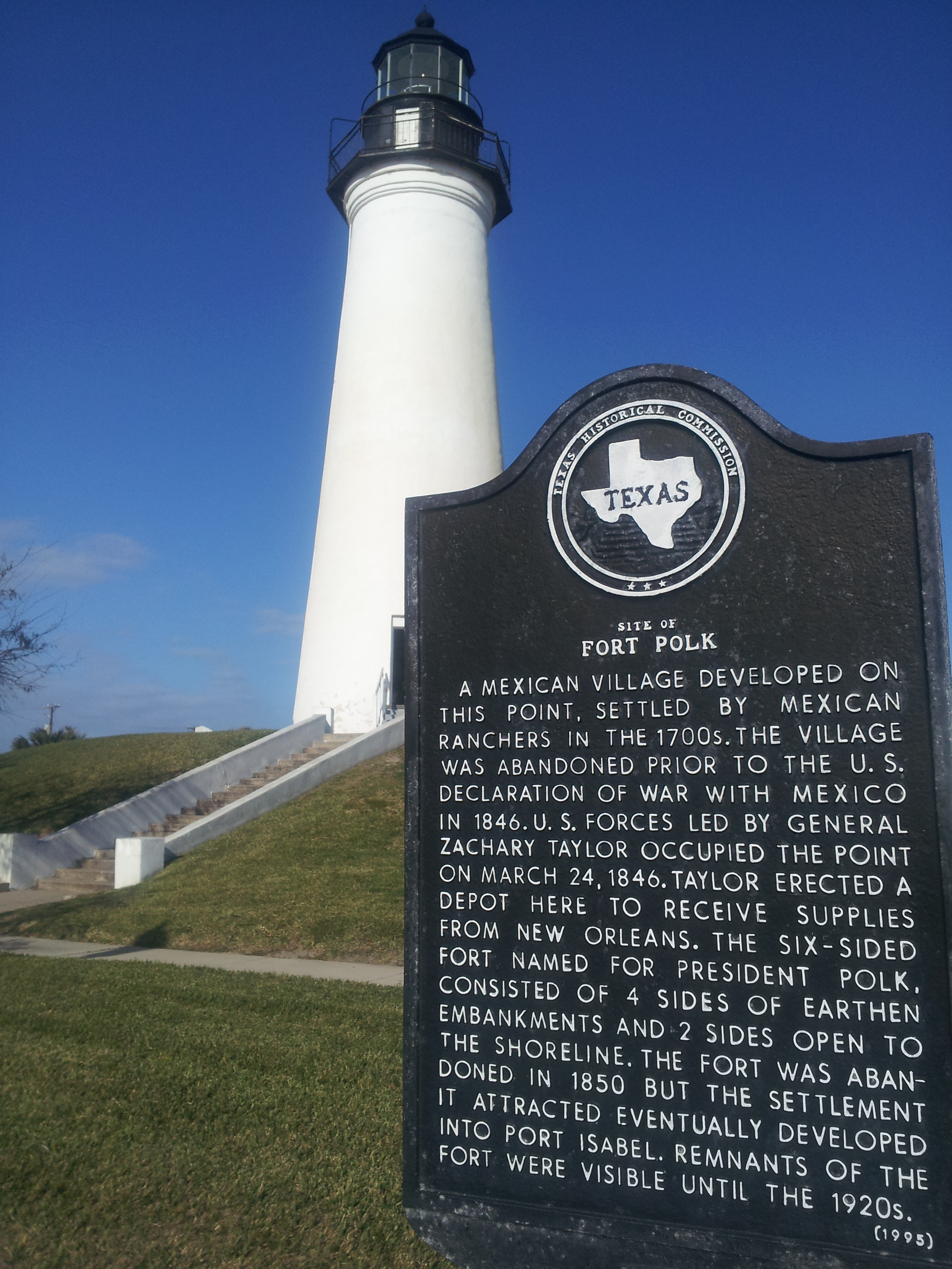 Zachary Taylor's Fort Polk